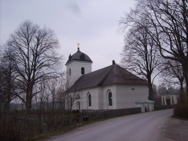 The church in Tåby.